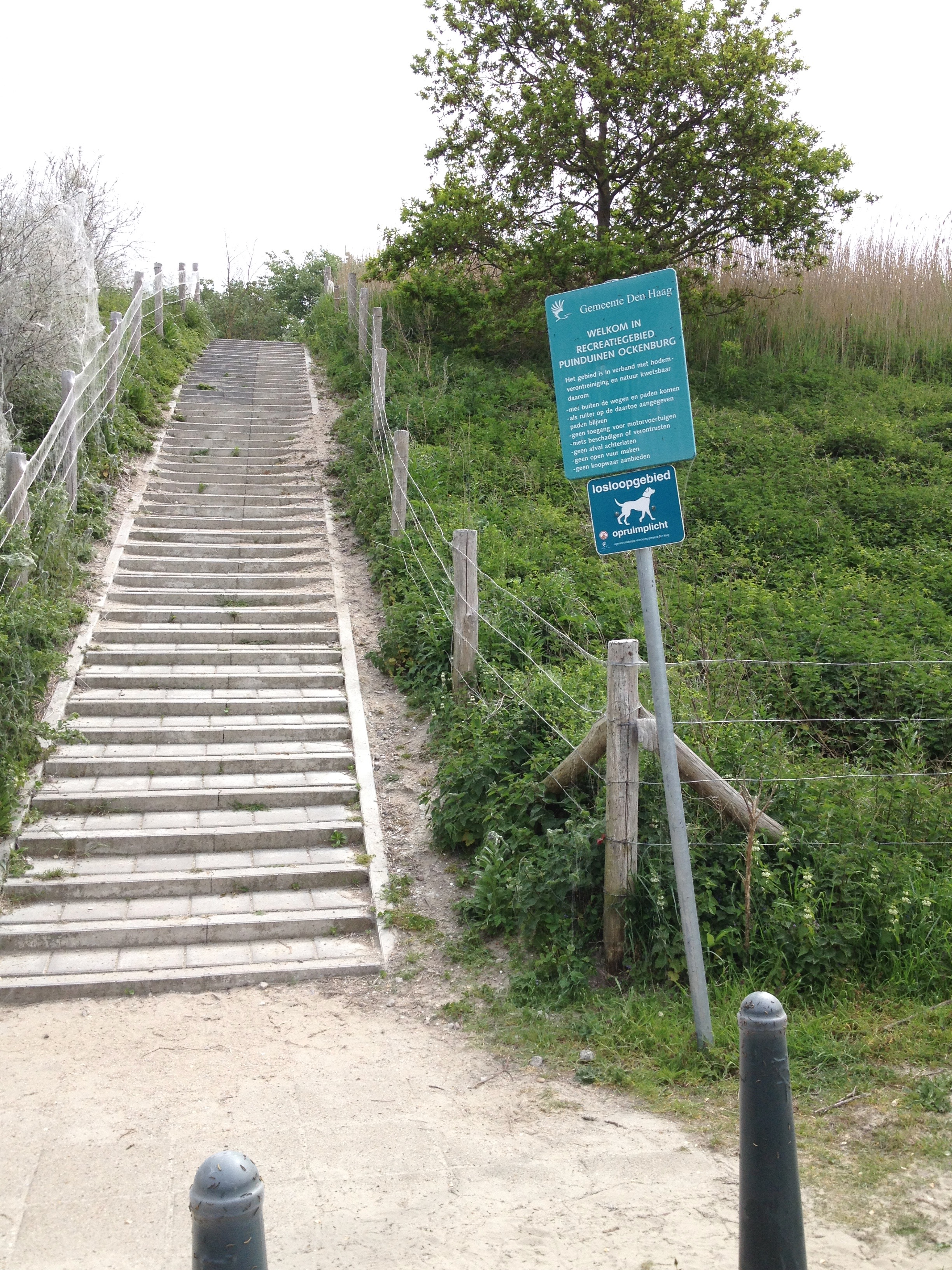 Park area, hill formed from rubble from buildings demolished in WW2.